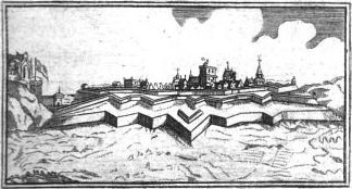 Illustration of title page of "The engineer Francois", a work attributed to Jean-Baptiste Naudin. 1734. Amsterdam. Editor : Jamssons-A-Waesberge